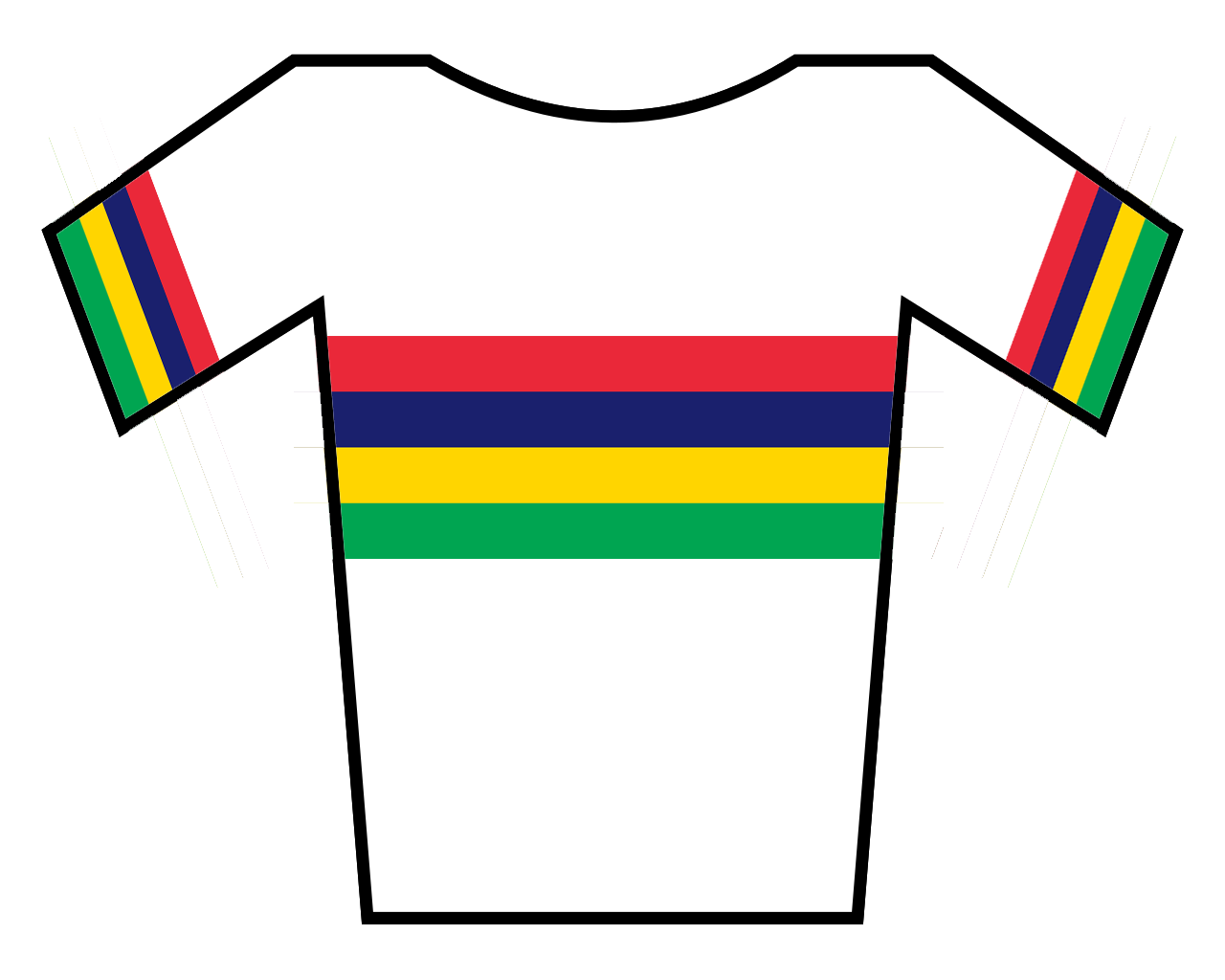 National champion cycling jersey of Mauritius